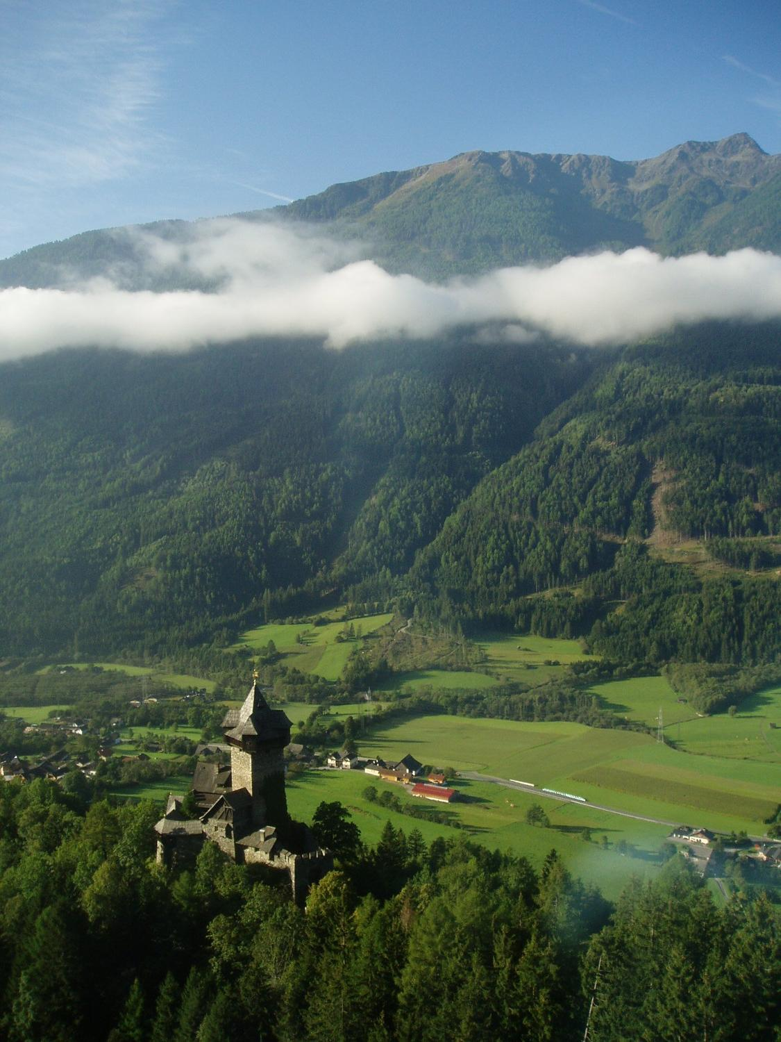 A castle and mountain valley in the Alps. Visit The World Factbook for more information about Austria.